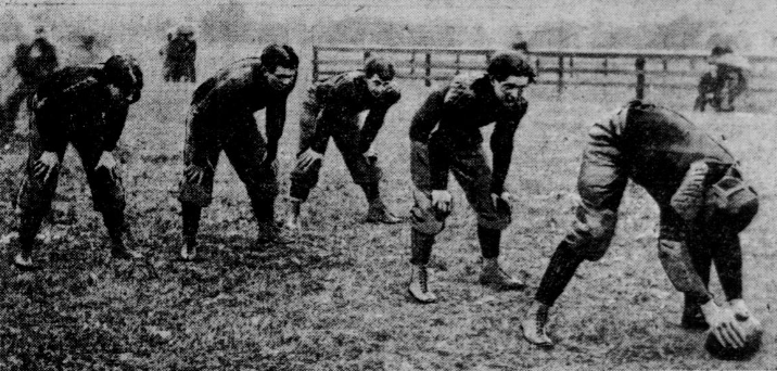 Backs of the 1900 Stanford University football team